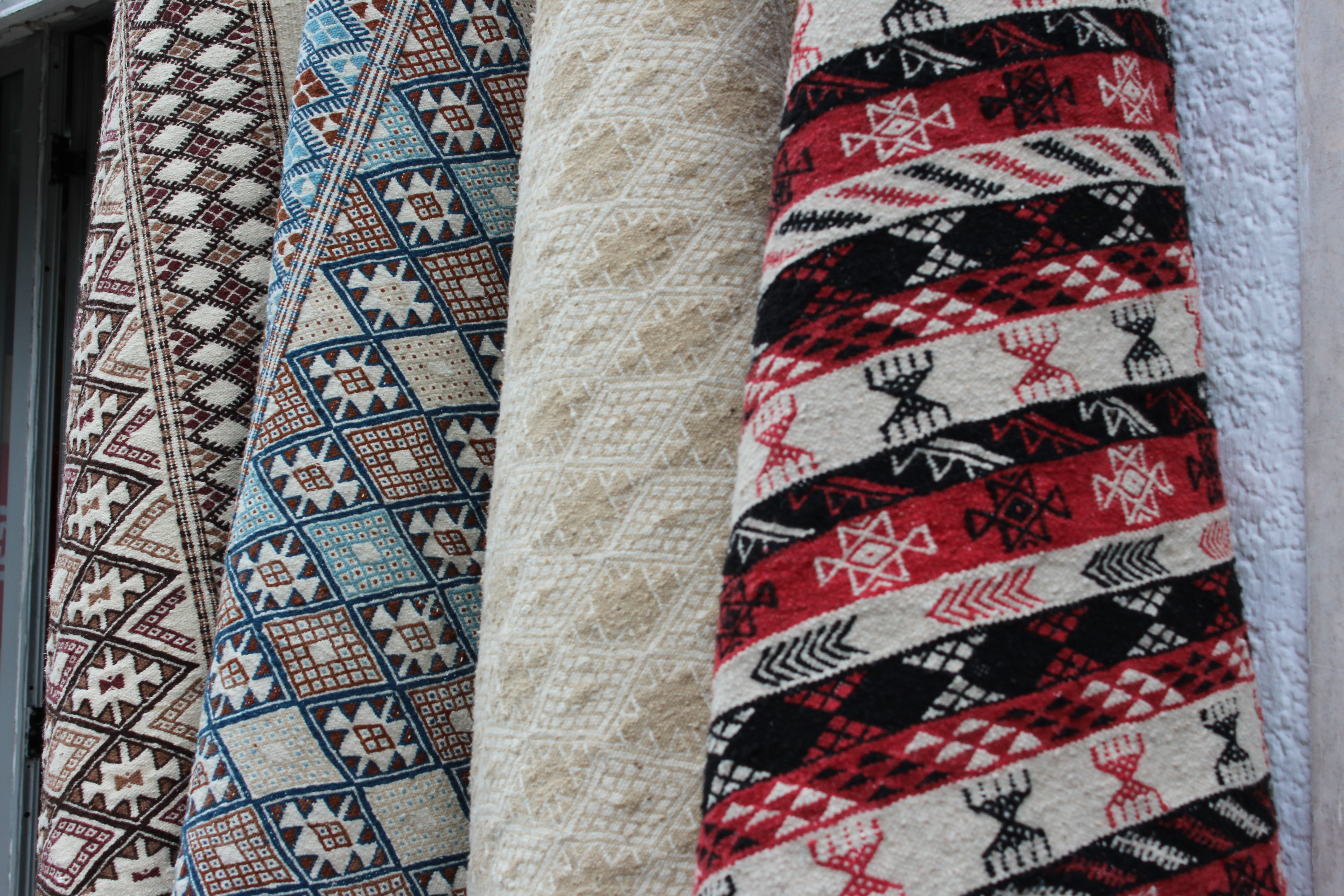 Carpets containing Berber symbols from Takrouna which is a Berber village in Tunisia.